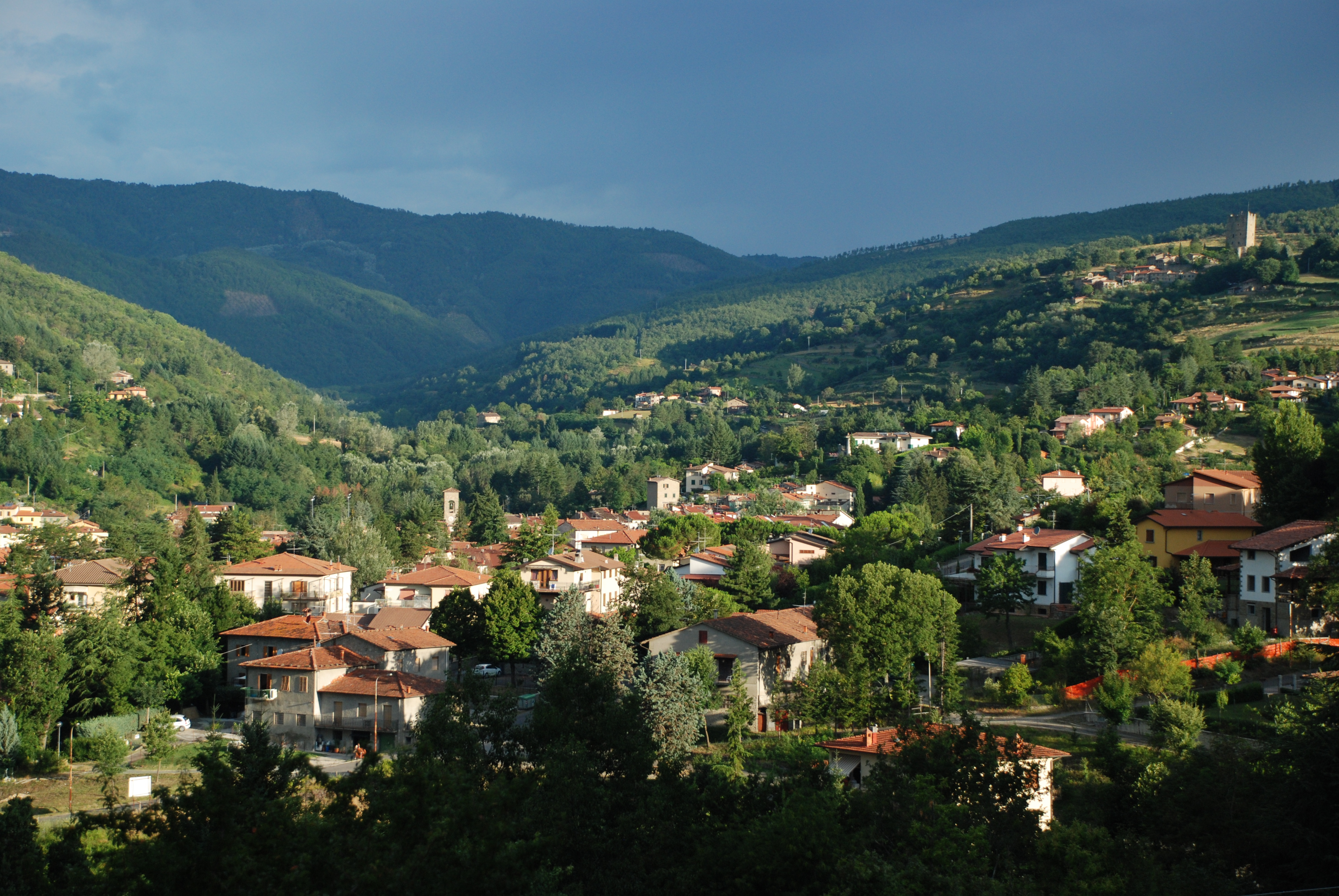 View of the Commune of Stia looking West